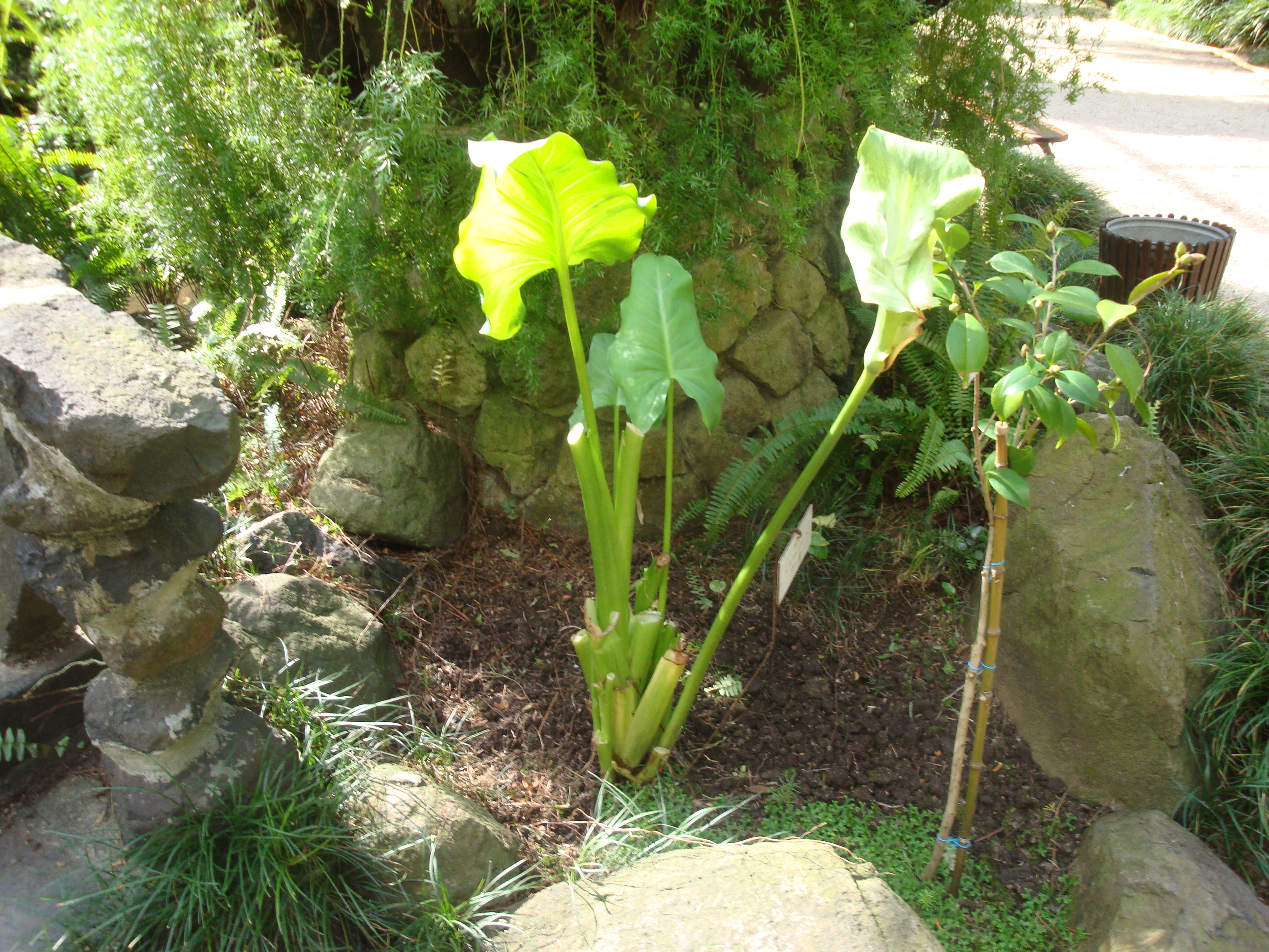 Zantedrochia aethiopica